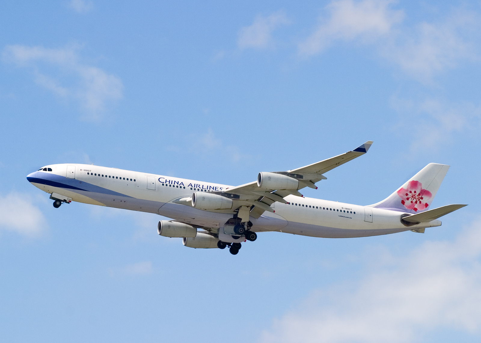 On way back to China